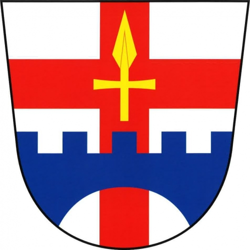 Coat of arms of Nerestce, Písek District